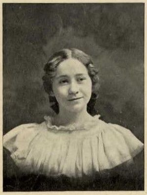 A young white woman wearing a voluminous white blouse. Her hair is parted in the middle and dressed in a low chignon. She is smiling slightly.